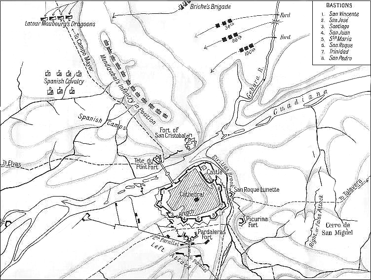 Map of the Battle of the Gebora, and the first siege of Badajoz. For use in the Battle of the Gebora and eventually the First Siege of Badajoz (1811) articles.